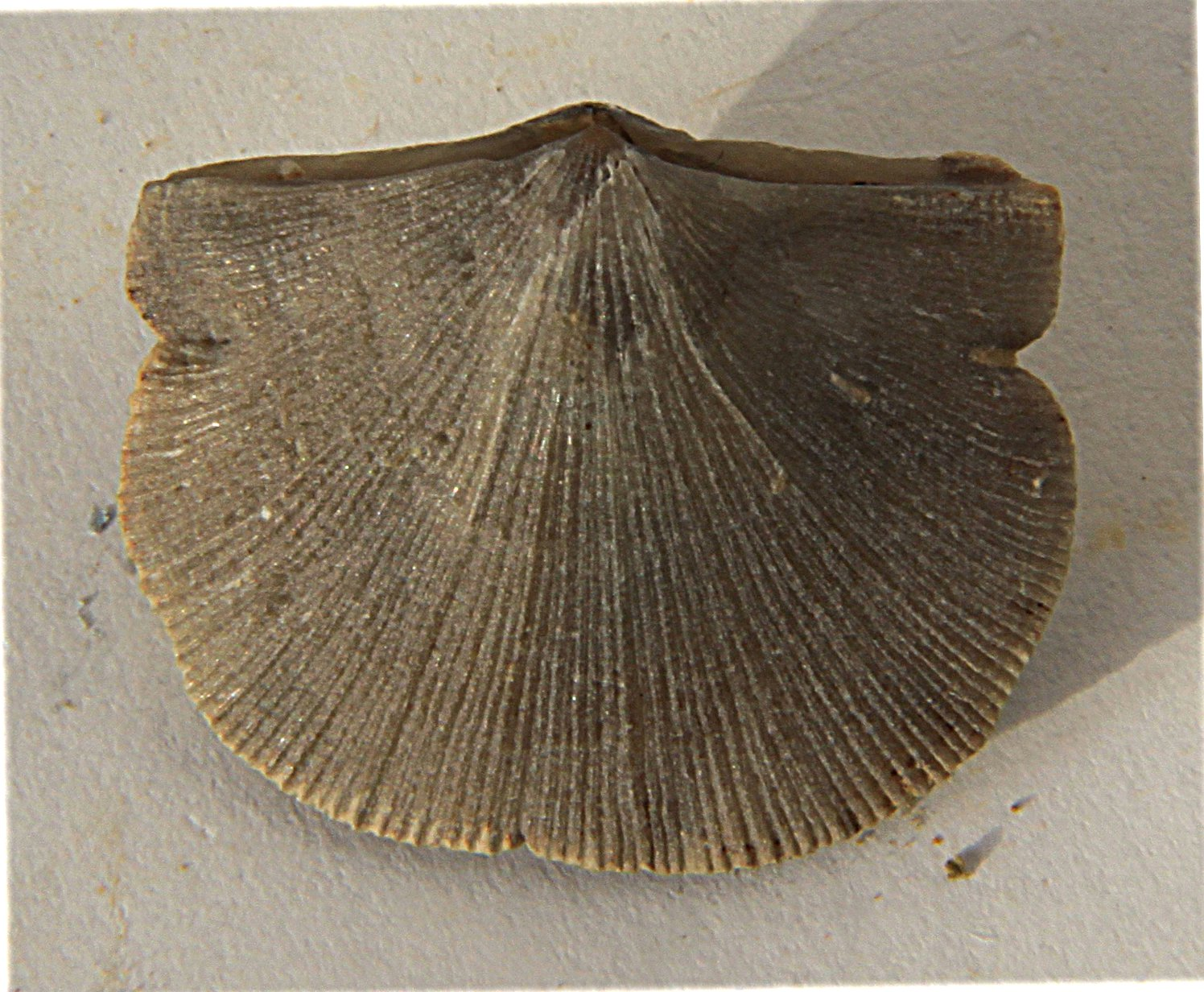 A Chaulistomella magna lampshell, Order Orthida, Family Plectordidae, 19mm along the axis, brachial valve, collected from the Bromide Formation, Carter County, Oklahoma, USA, from the Upper Ordovician (Katian)